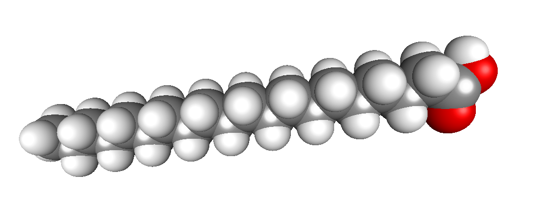 A space-filling model of arachidic acid, a saturated fatty acid (C-20)found in peanut and corn oils